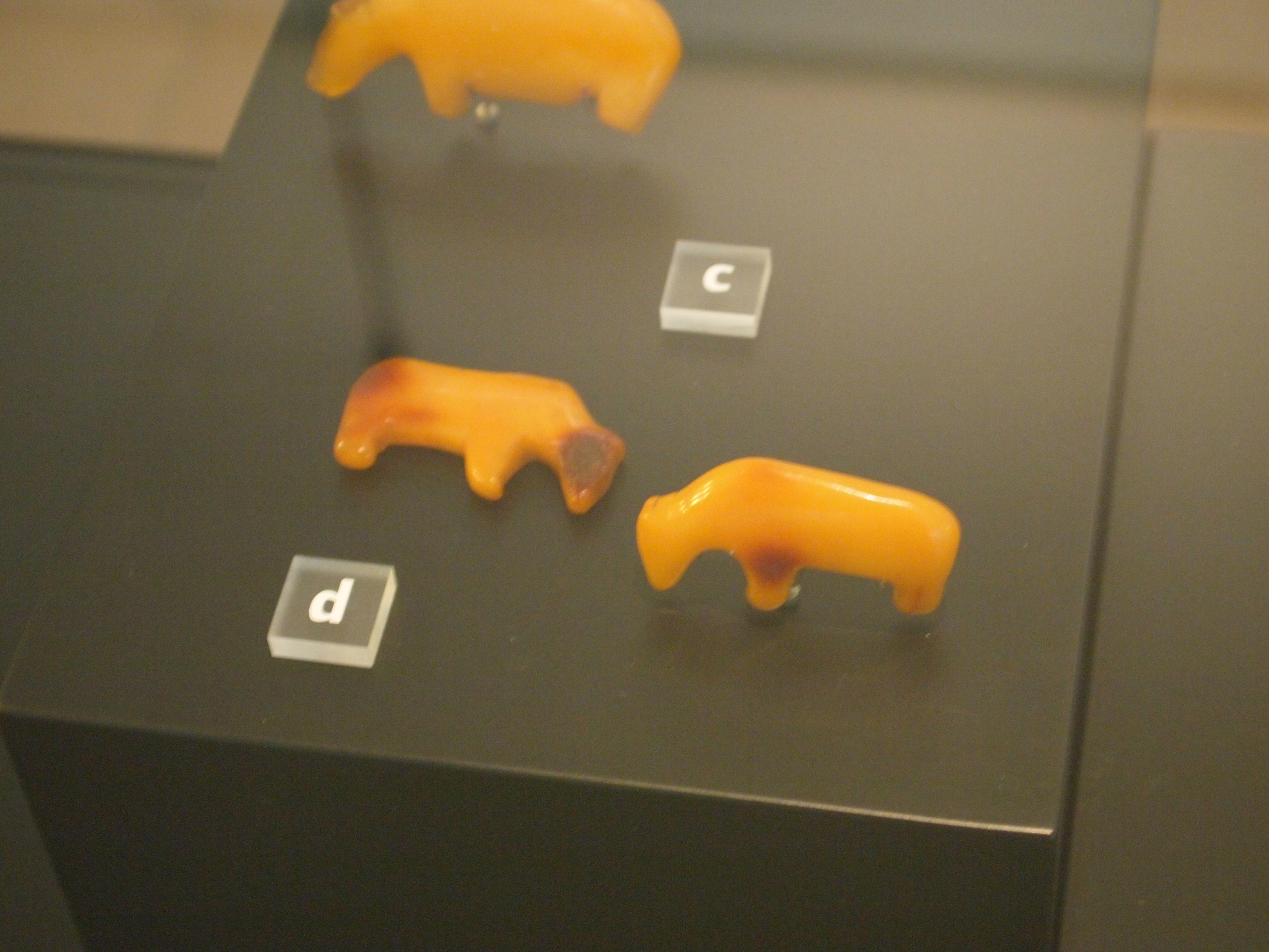 Pictures taken at the National Museet - The National Museum - Copenhagen Denmark during the Wikipedia Loves Nationalmuseet Prehistoric amber bears at the National Museum in Copenhagen, the ones marked with a "d" turned out to be fake